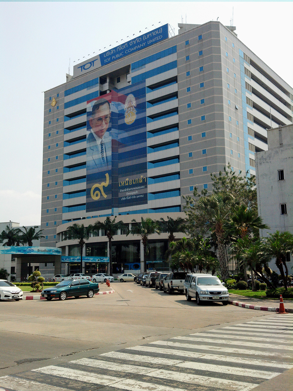 TOT Public Company Limited Headquarter in Bangkok, Thailand